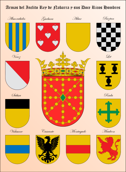 Armas del Rey de Navarra y sus doce Ricoshombres